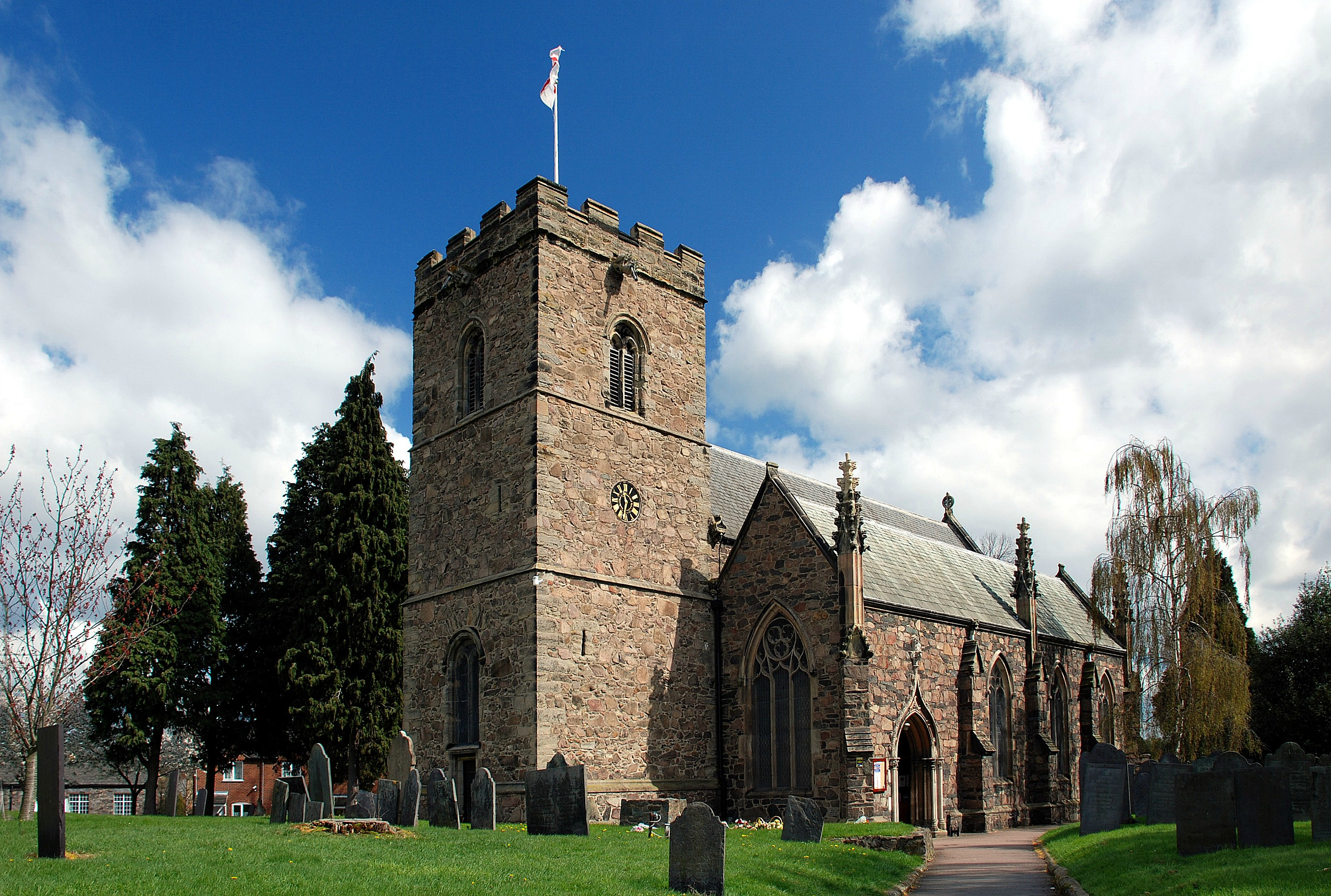 Church Of St Mary Wikidata has entry Q26337021 with data related to this item.